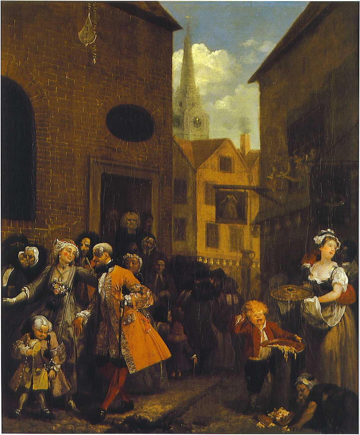 Noon, the second painting from William Hogarth's Four Times of the Day (1736).